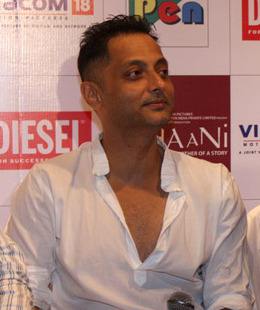 Sujoy Ghosh, Vidya Balan From The DVD launch of 'Kahaani'